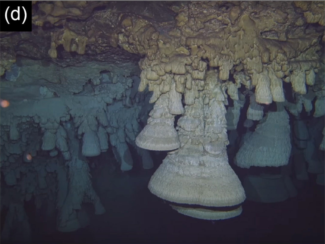 Various Hells Bells, displaying the bell-like shape